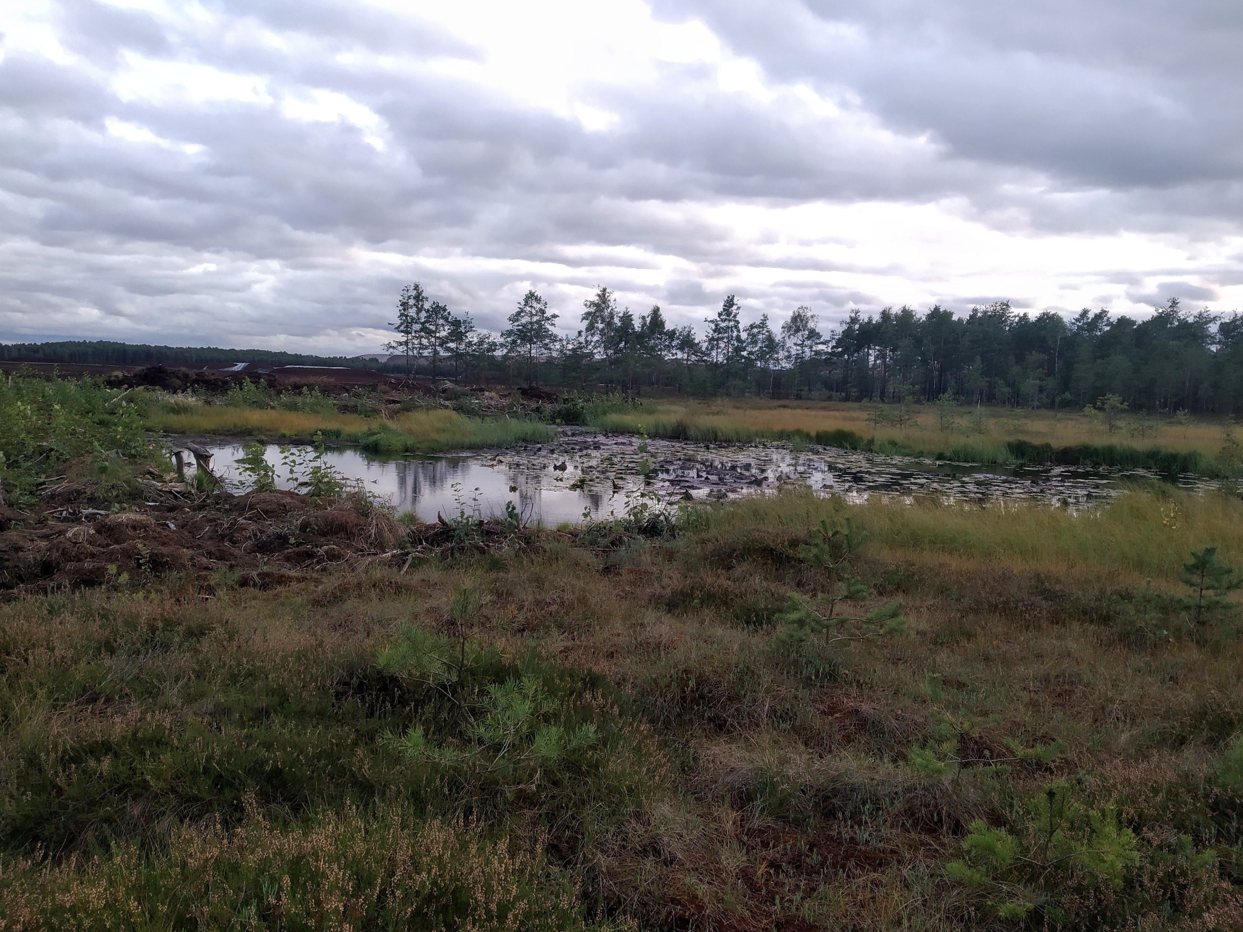 Small lake in Getliņu purvs